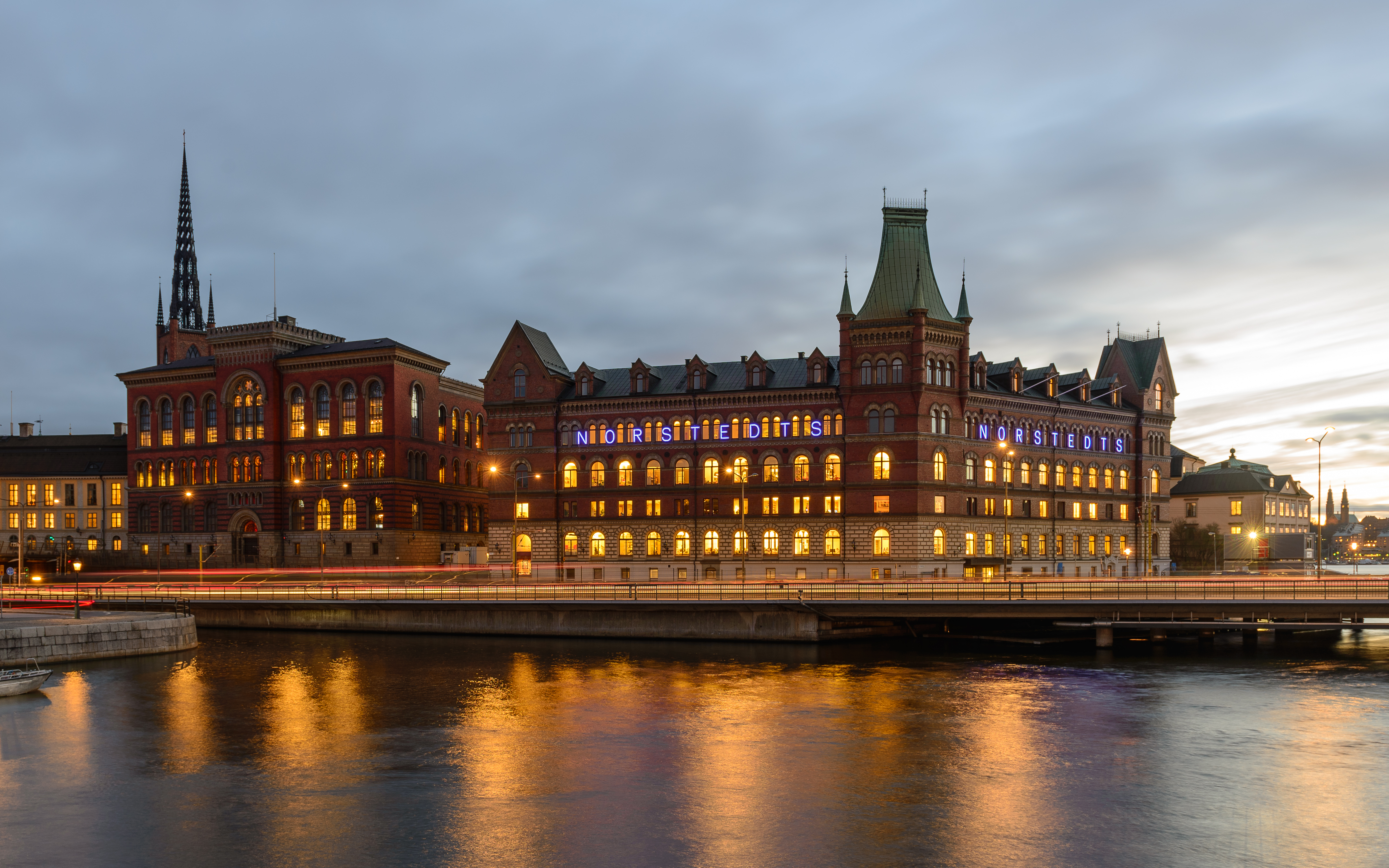 Buildings in Riddarholmen, Stockholm. Left; the old National Archives building. Right: the Norstedt Building